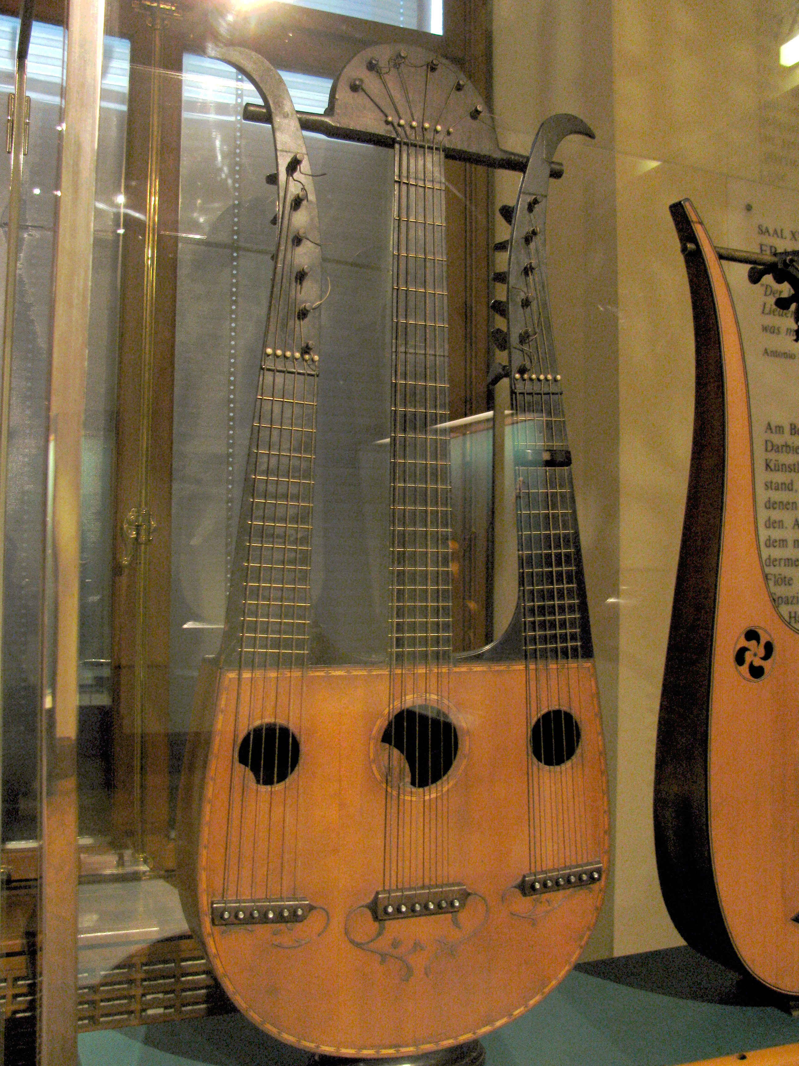 Guitar in lyre style, France, 1st Half of 19th century